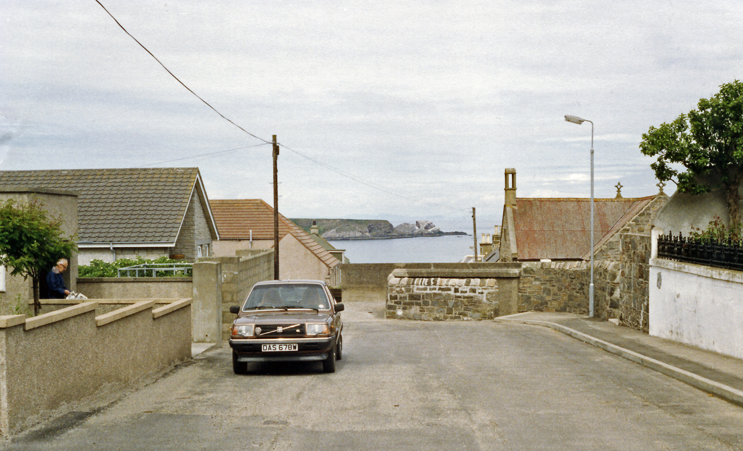 Site of Cullen station, 1988. View northward, to harbour and Scar Nose off Portknockie: ex-GNSR Coast Line, Buckie and Elgin left, Portsoy and Cairnie Junction right. The station and line were closed from 6/5/68.